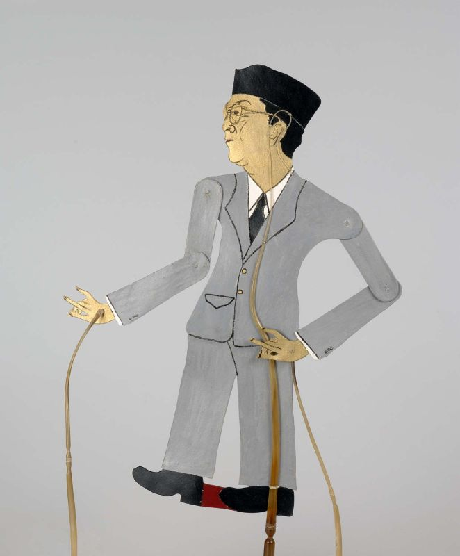 Wayang Kulit figure representing Dr. Mohammed Hatta (1902-1980)